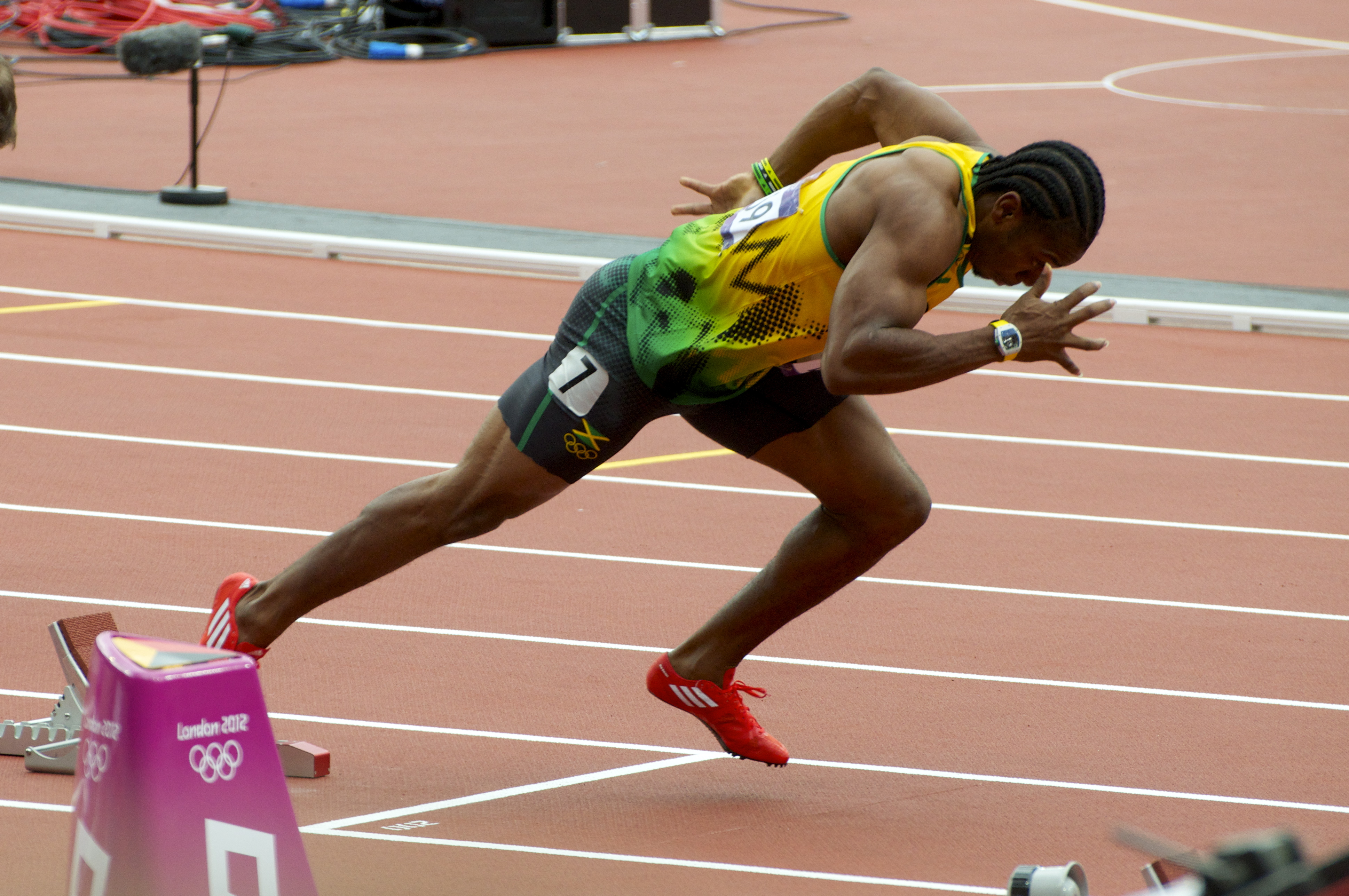 Yohan Blake during the heats of the 2012 Olympic men's 200m